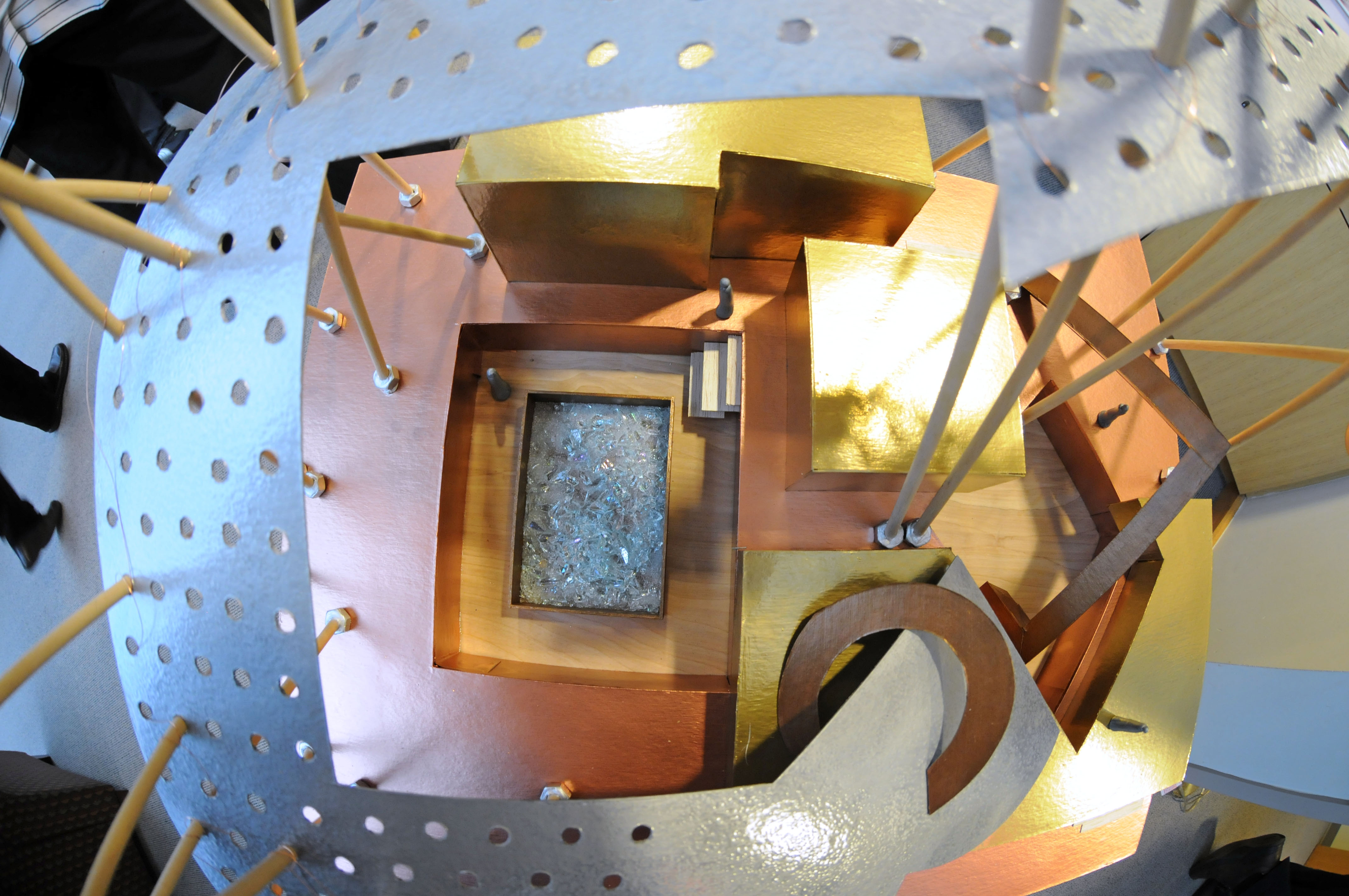 Mary Hejina's interpretation of Emil Filla's "Tray with a Bunch of Grapes" Learn more about SNRE's Masters Program in Landscape Architecture